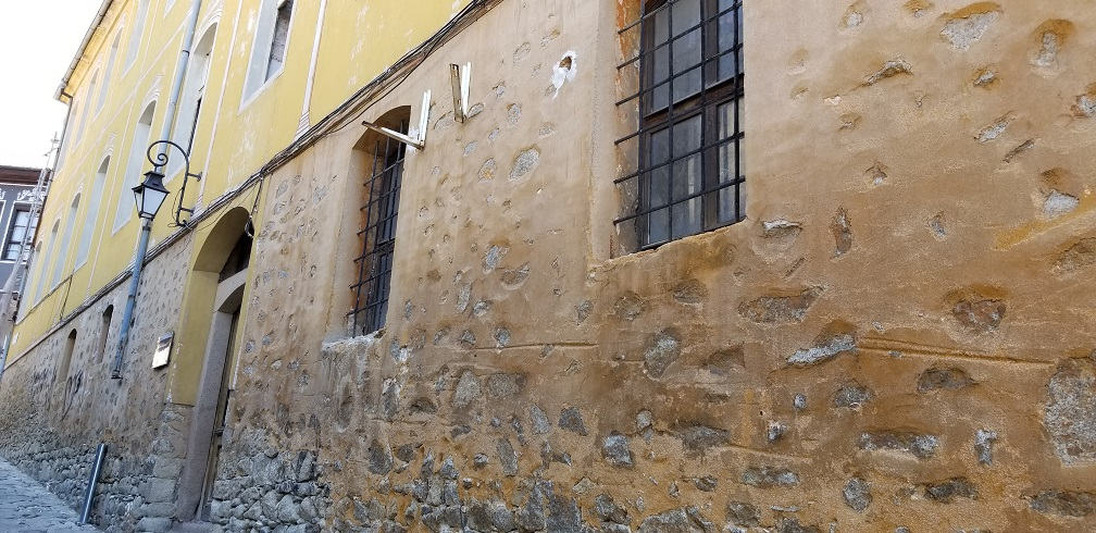 Yellow School in Plovdiv